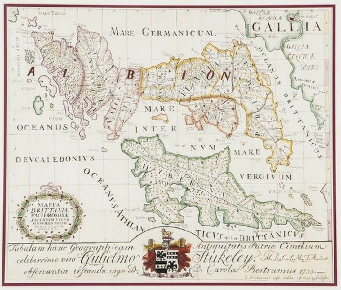 A color map (335×400 cm) from Charles Bertram's forged account The Description of Britain (Latin: De Situ Britanniae). →→→A historical forgery and not to be used as an accurate map.←←← Text: Mappa Britanniae Facie i Romanae Secundum Fidem Monumentorum Pervertum Depicta Tabulam hanc Geographicam Antiquitatis Patriae Cimelium celeberrimo viro Gulielmo Stukeley M.D., C.L.M., F.R.S.eet observantiae testandae ergo D. D. Carolus Bertramus 1755.C. Bertramus ipse delin: ab orig. & sculpsit. [motto:] Si Sit Rudent